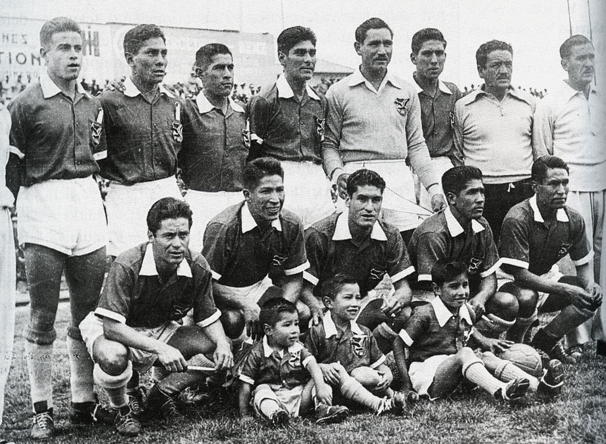 Bolivia national football team line-up during the 1958 World Cup Qualifiers.